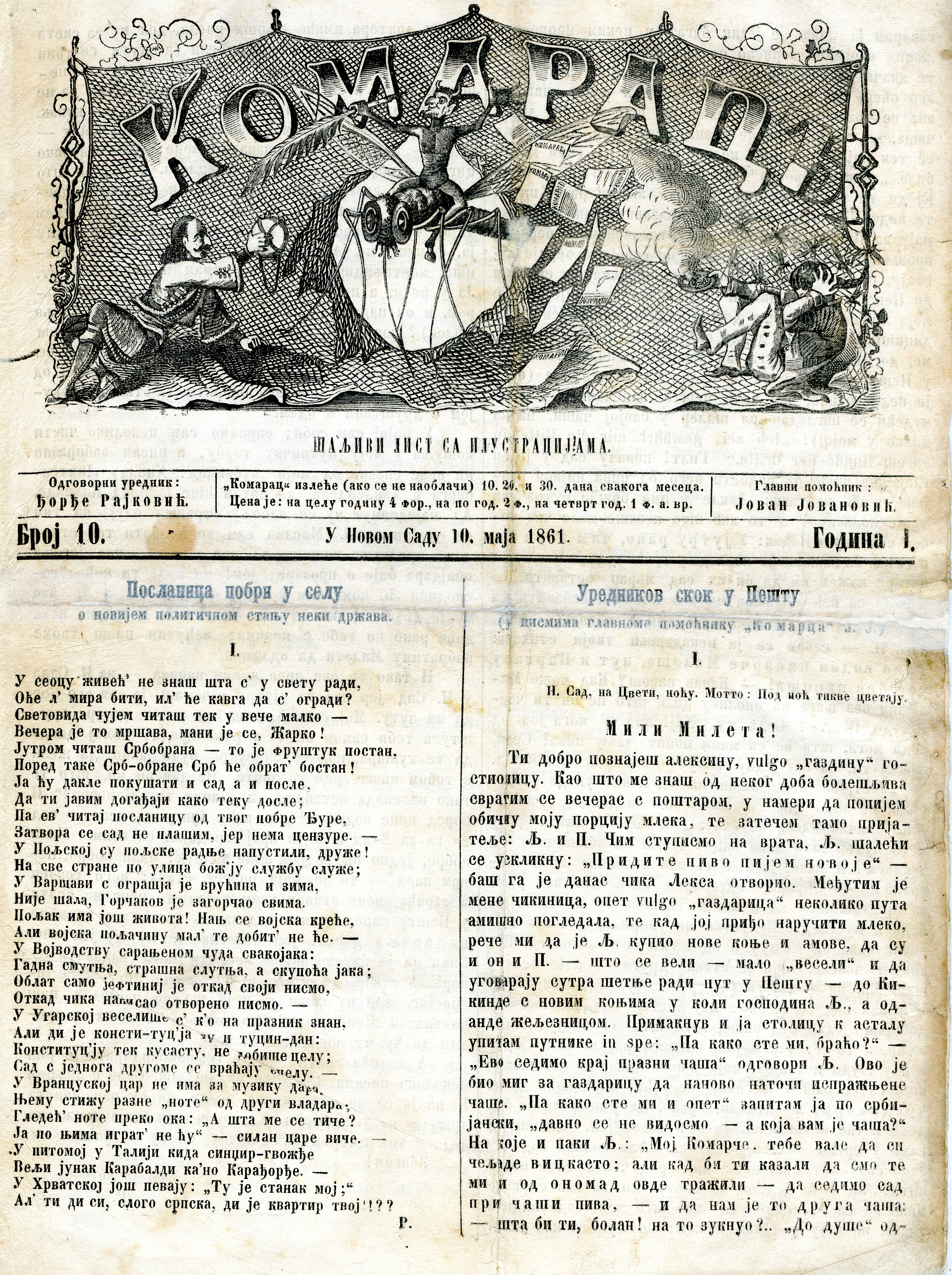 Front page of humoristic newspaper "Komarac" from 10 May 1861.